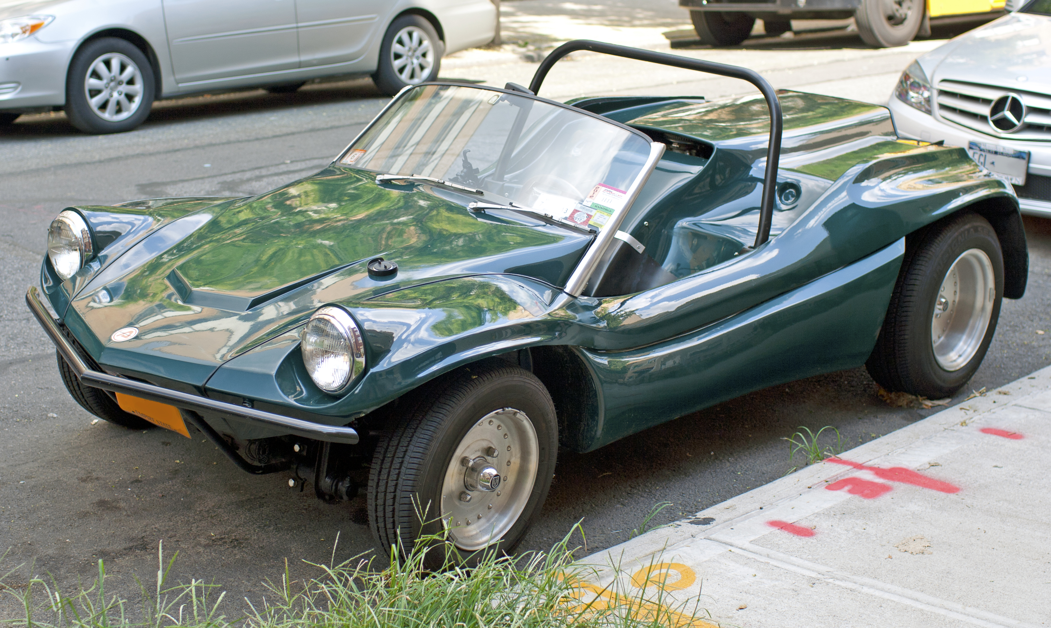 1971 Deserter GS 1600 - this version of the Deserter GT buggy had its own tubular mid-engined frame and was intended for competition. This one has a 1.6 litre engine (Porsche or VW), many were fitted with tuned Chevrolet Corvair engines. 134 chassis were built.